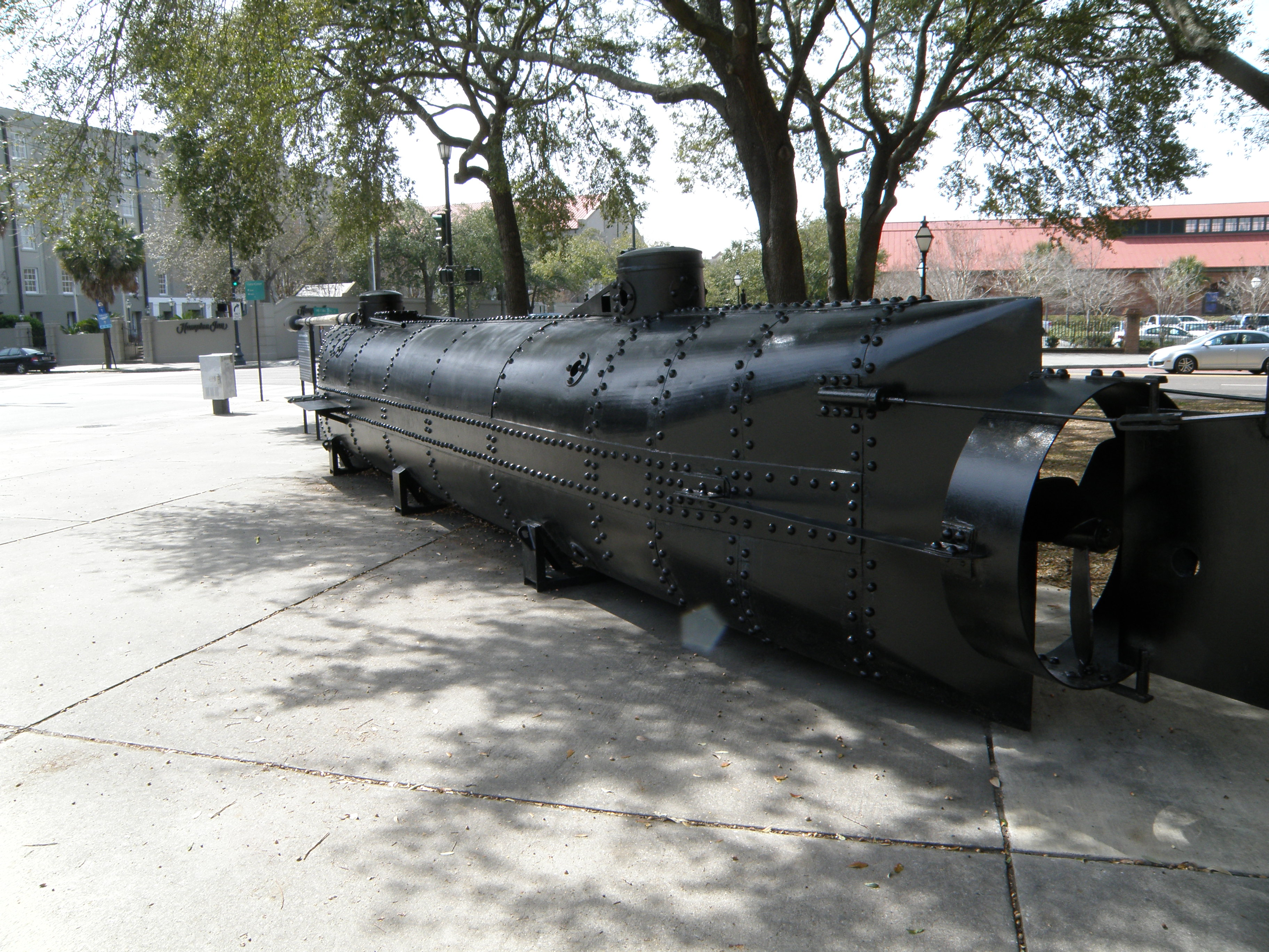 A life size model of the CSS Hunley, a Confederate submarine used in Charleston Harbor during the Civil War. It is considered the first submarine to ever sink an enemy warship. It was also a very unlucky vessel- every crew that served on it also died on it. After the third time it was lost with all hands it was not raised and re-used. The real Hunley was actually salvaged a few years ago and is undergoing restoration in Charleston. This replica is on display on the grounds of The Charleston Museum, Charleston, SC.